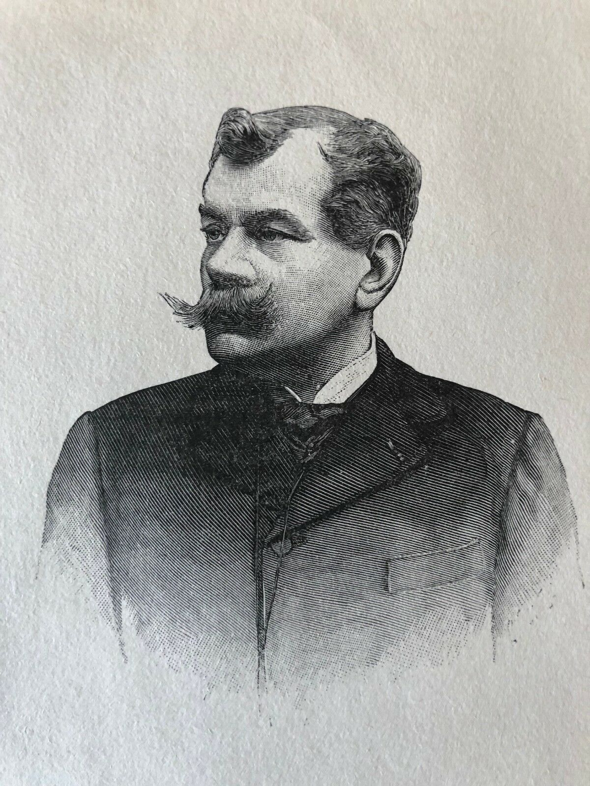 French historian and politican Charles-Albert Costa de Beauregard (1835-1909)